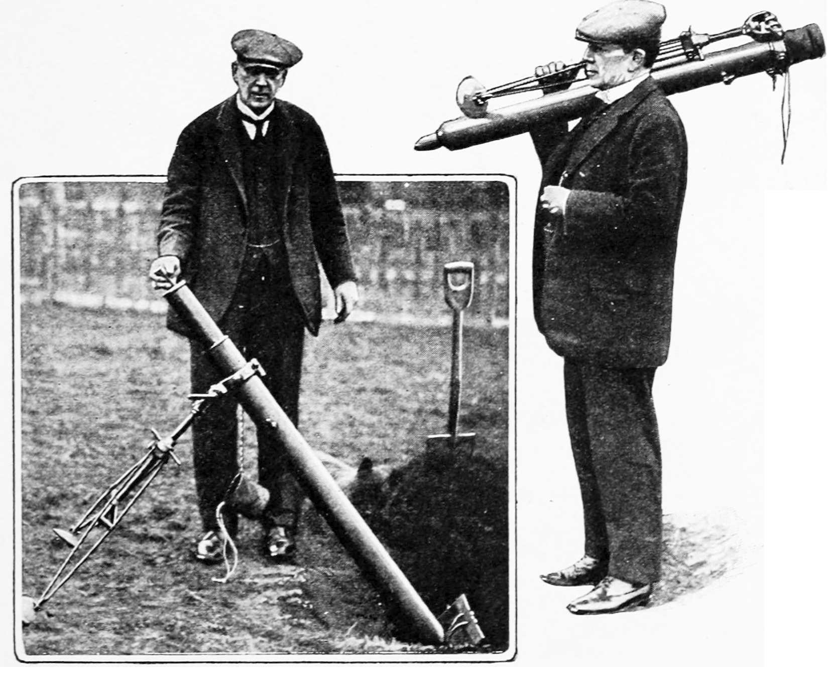 Stokes mortar for trench warfare WWI